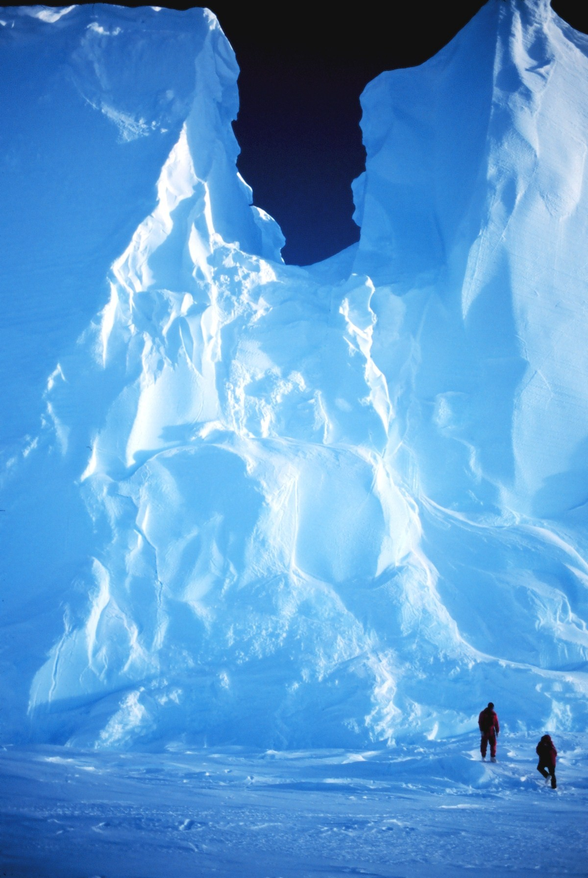 The Ross Ice Shelf at the Bay of Whales - the point where Amundsen staged his successful assault on the South Pole. 78 30 S Latitude 164 20W Longitude. Antarctica. 1998 December.